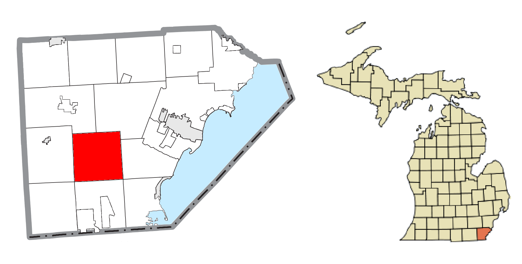 Ida Township, MI